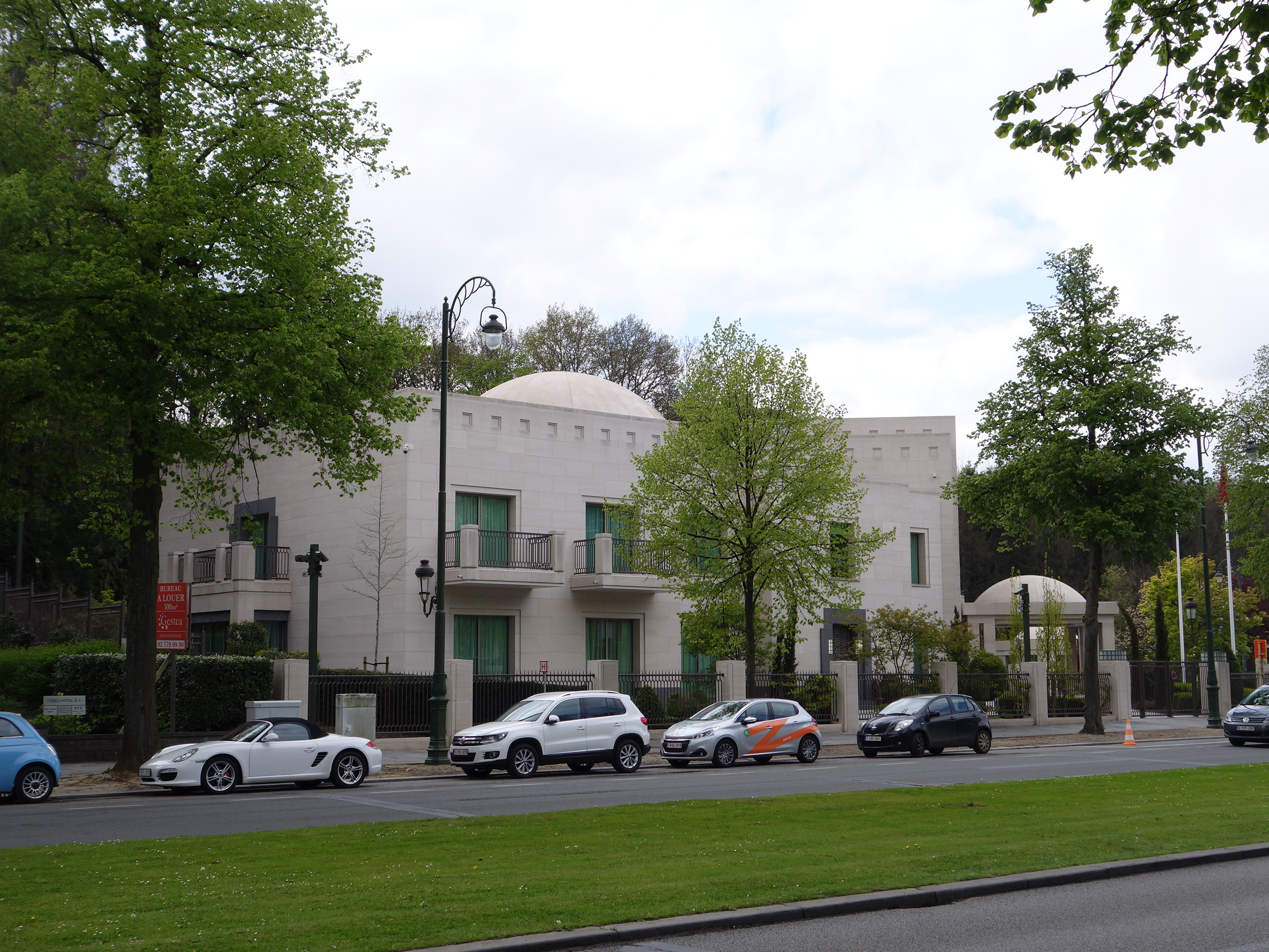 Qatari embassy, Brussels